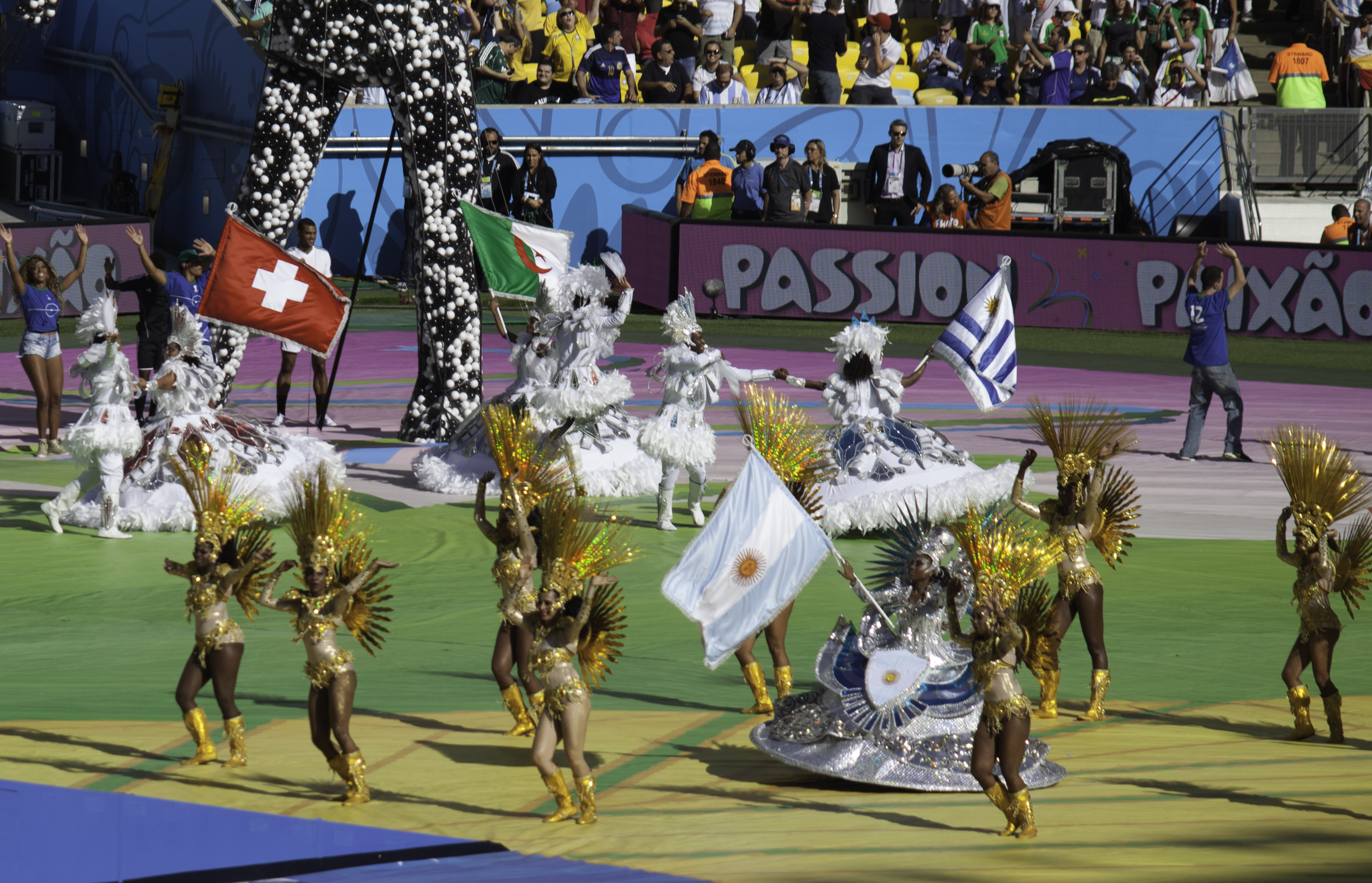 With Shakira, Carlinhos Brown, Carlos Santana, Alexandre Pires and Ivete Sangalo. Maracaná, Rio de Janeiro, Brasil. Camera: Canon EOS 5D Mark II 1 ISO: 200